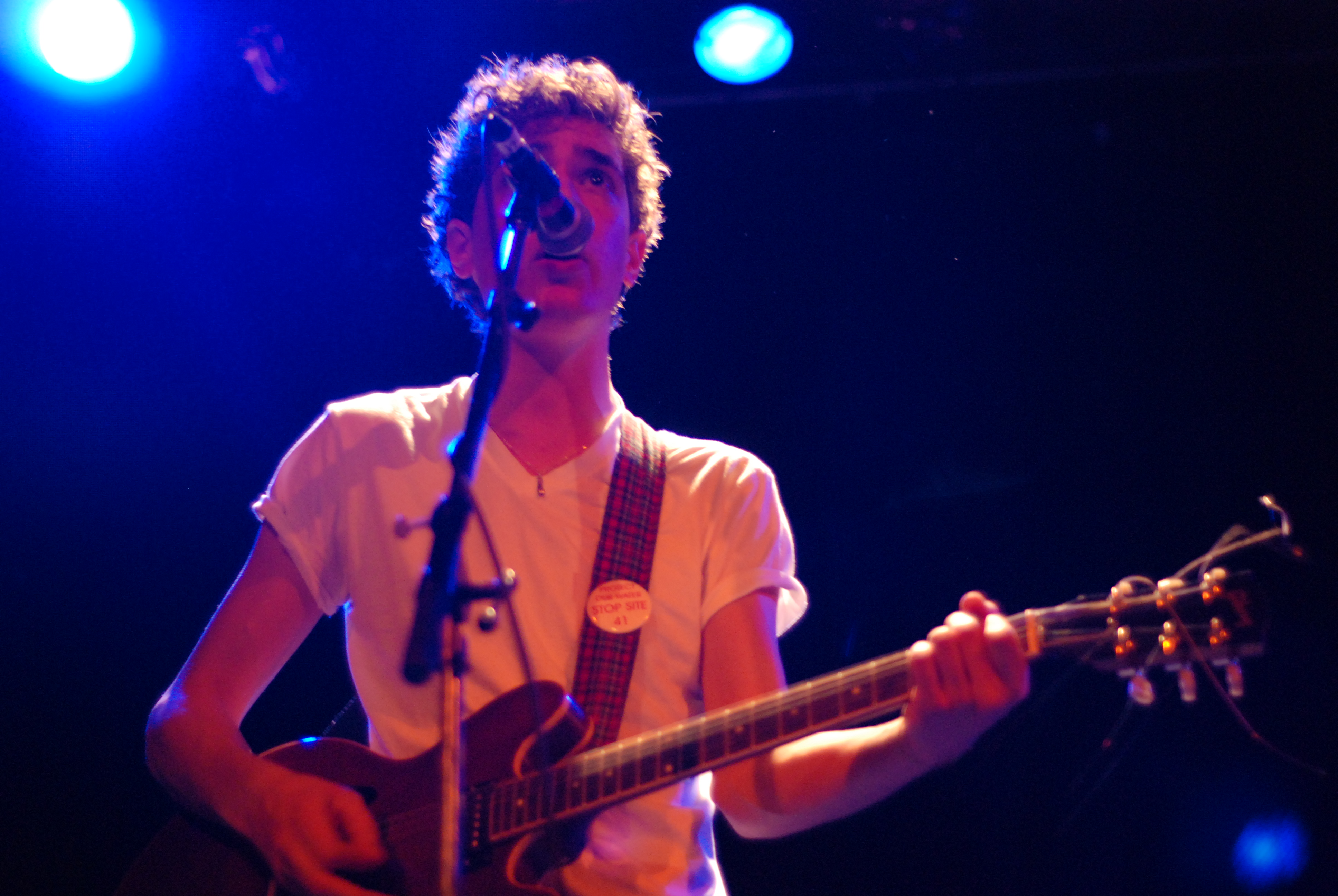 The Canadian indie rock bank Born Ruffians play at the Bower Ballroom in New York City